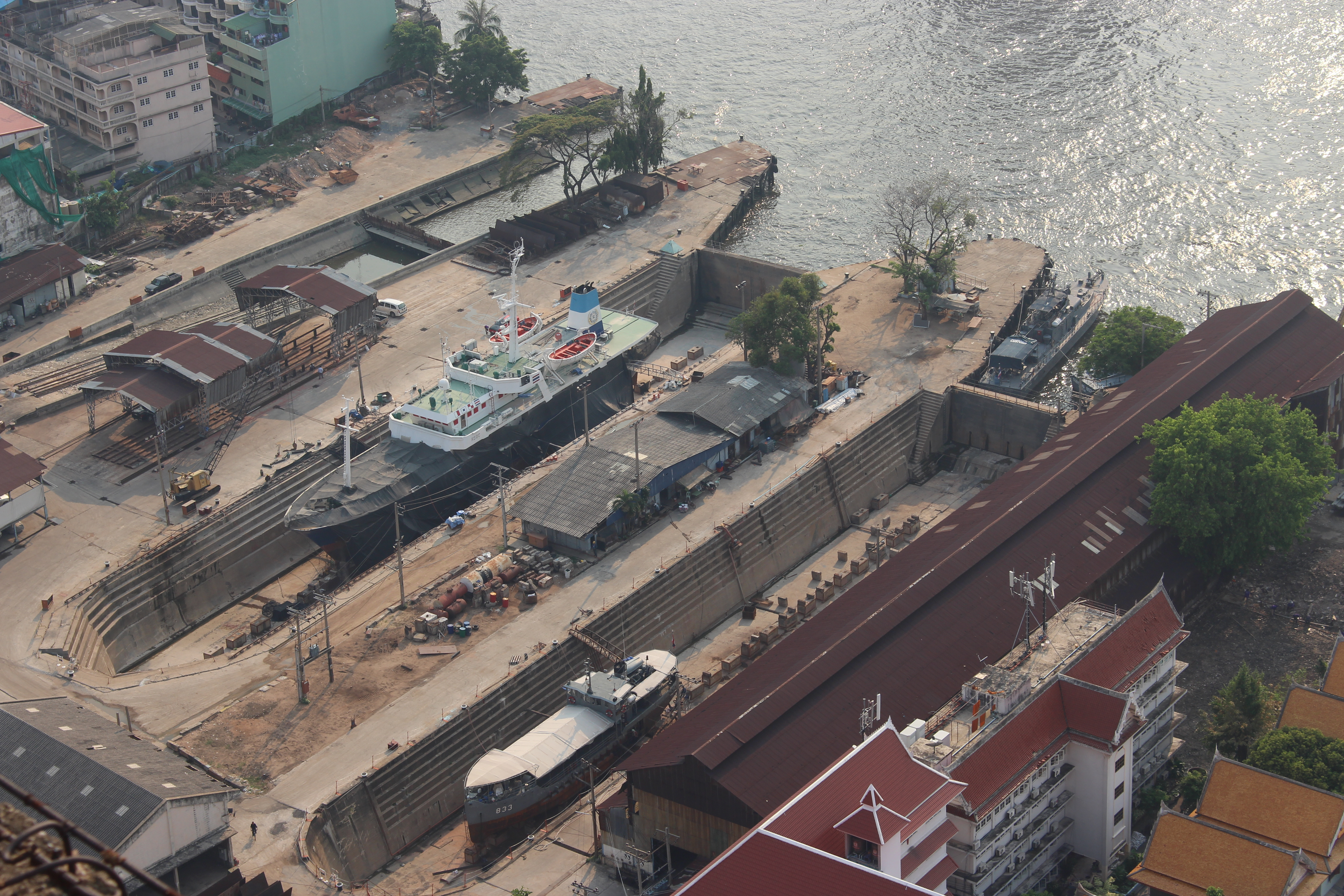 The Bangkok Dock Company. View from the Sathorn Unique Tower/Ghost Tower, Bangkok, Thailand.